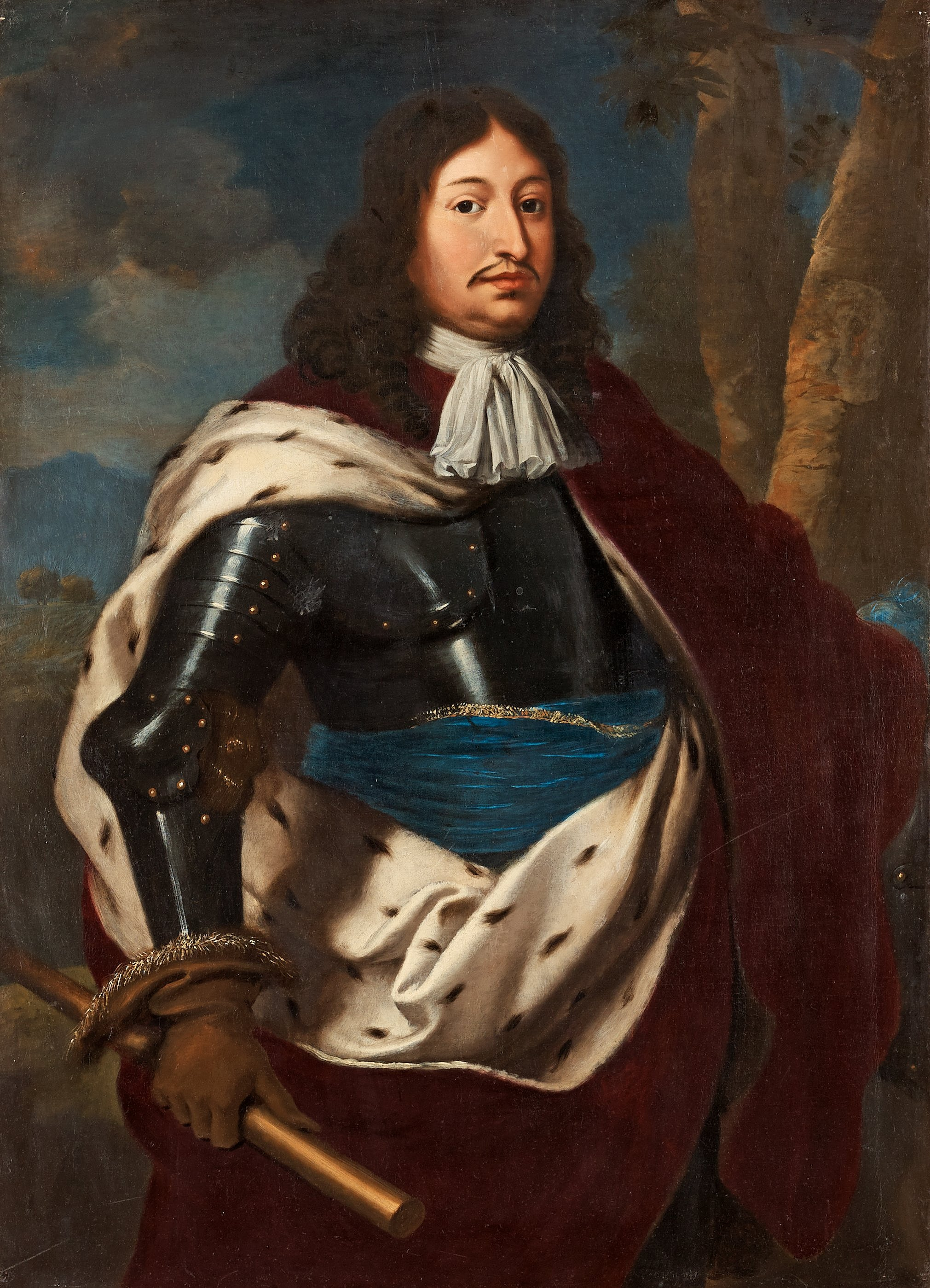 King Charles X Gustav of Sweden